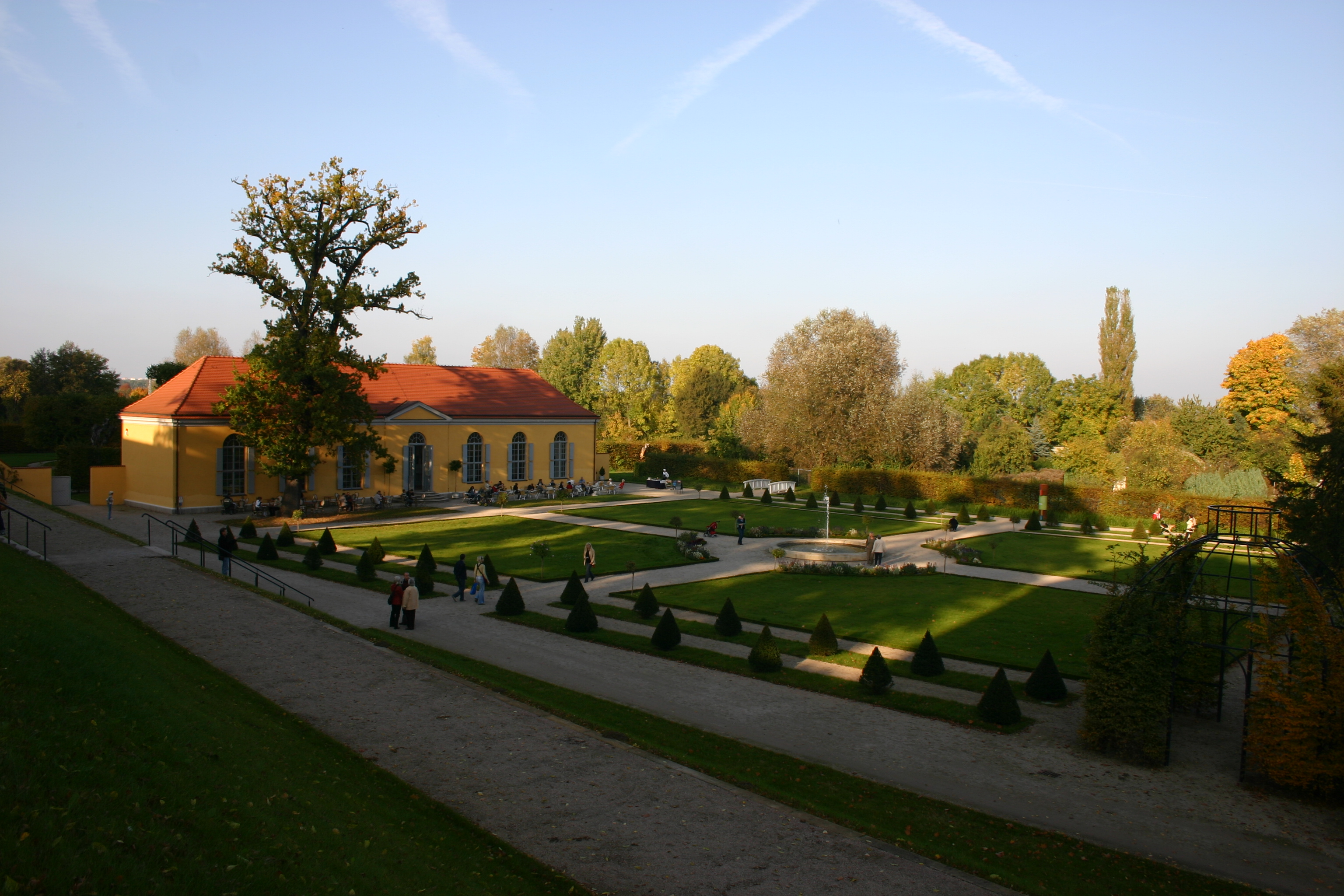 Park of Neuzelle abbey.